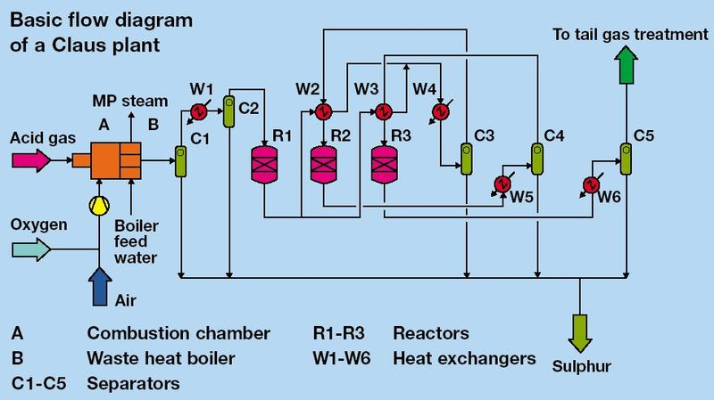 Claus plant diagram Basic flow diagram of a Claus process plant to convert gaseous hydrogen sulfide to elemental sulfur.